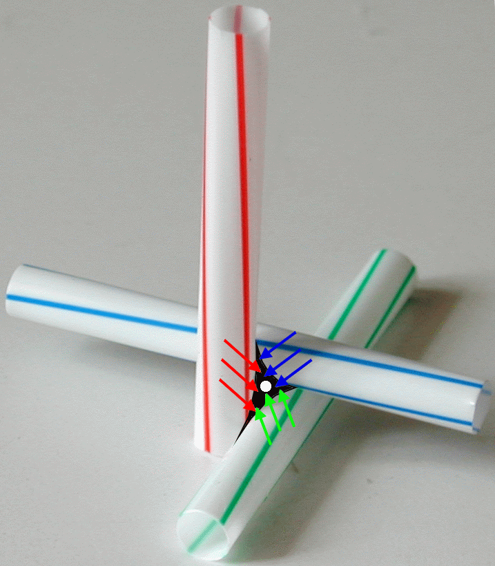 Corner formed by 45° Double Twist Tubes with Defect Lines Thread.